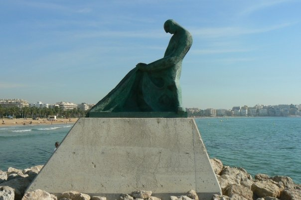 Salou Fisher Monument located on the breakwater dock the Catalan resort of Salou, which was erected in 1990.